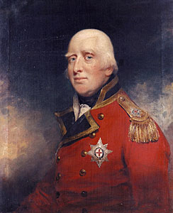 William Henry, Duke of Gloucester (1743-1805)